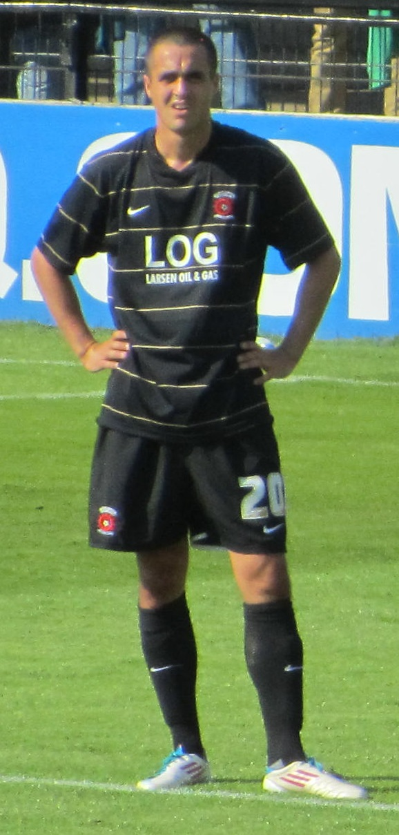 Evan Horwood playing for Hartlepool United against York City at Bootham Crescent, York on 30 July 2011